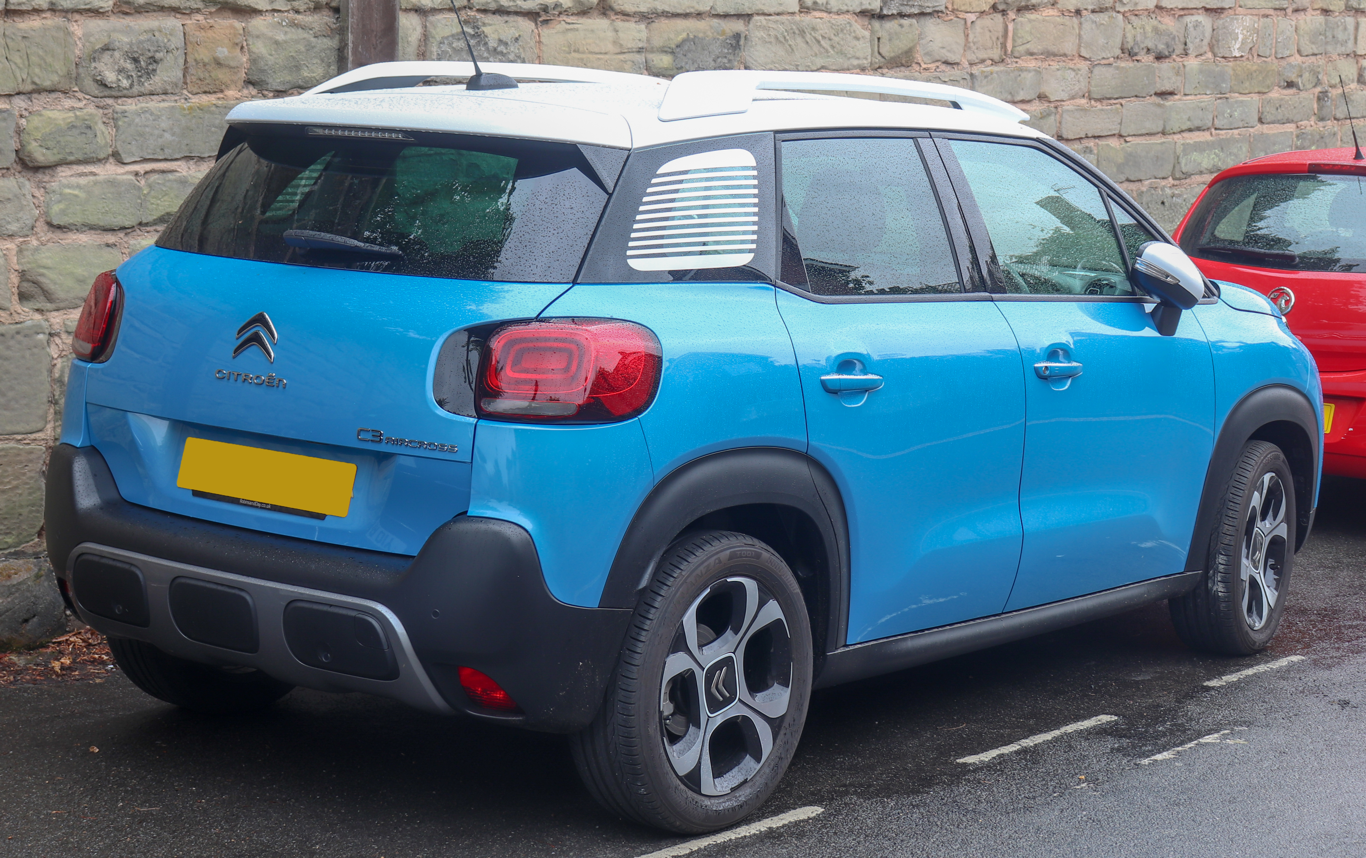 2018 Citroen C3 Aircross Flair Puretec 1.2 Rear Taken in Warwick